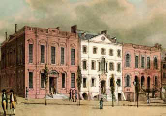 New York, corner between Wall Street and William Street 1798